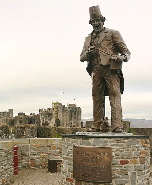 Statue of Tommy Cooper in Caerphilly Town Centre. The Sculptor was James Done. Unveiled by Sir Anthony Hopkins. Caerphilly Castle in the background.